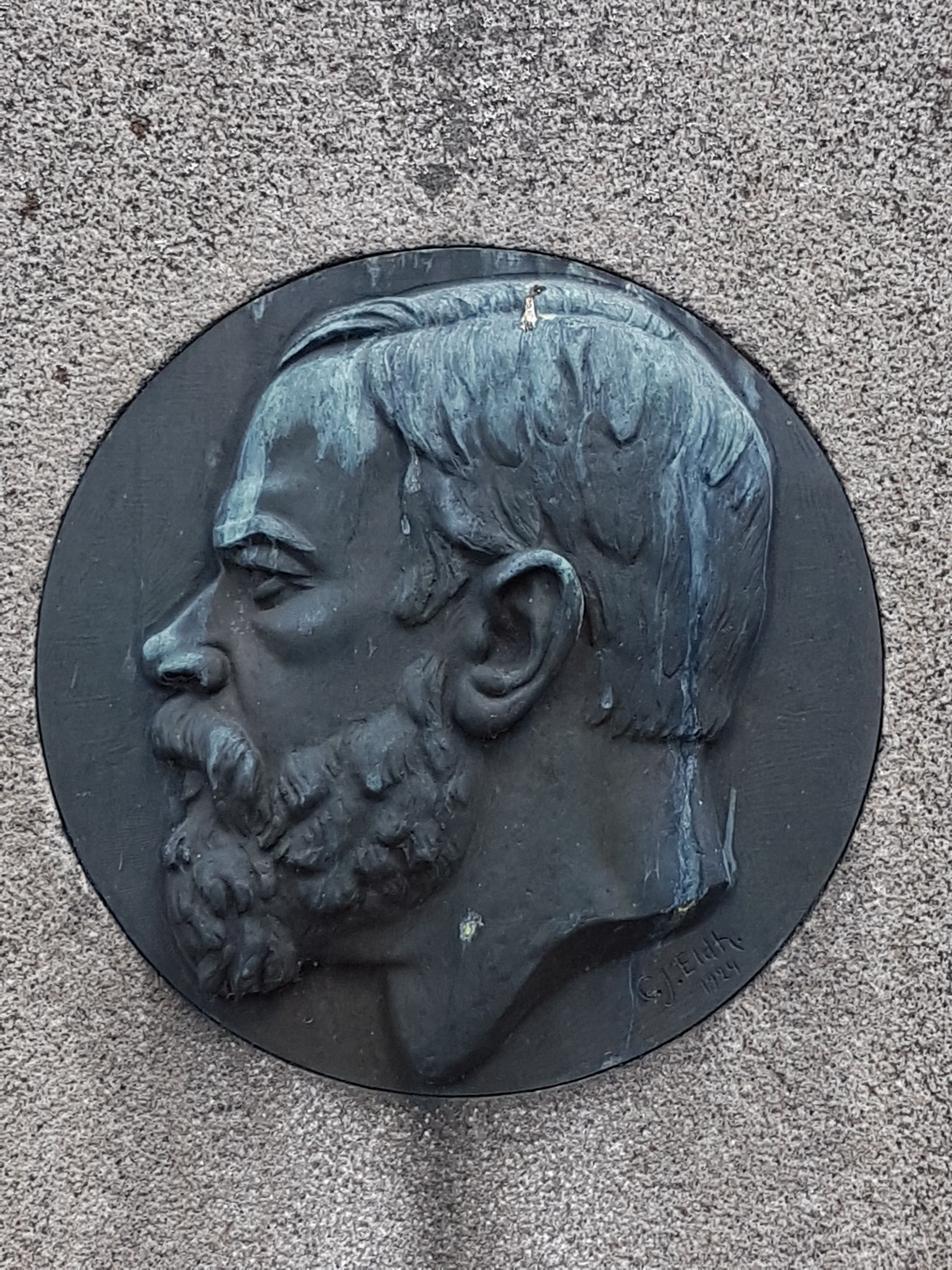 Tombstone of Karl Piehl (1853-1904), Professor in Egyptology at Uppsala University and his wife Hedvig Piehl (1856-1920).